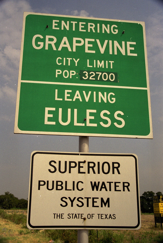 City Limit between Euless and Grapevine